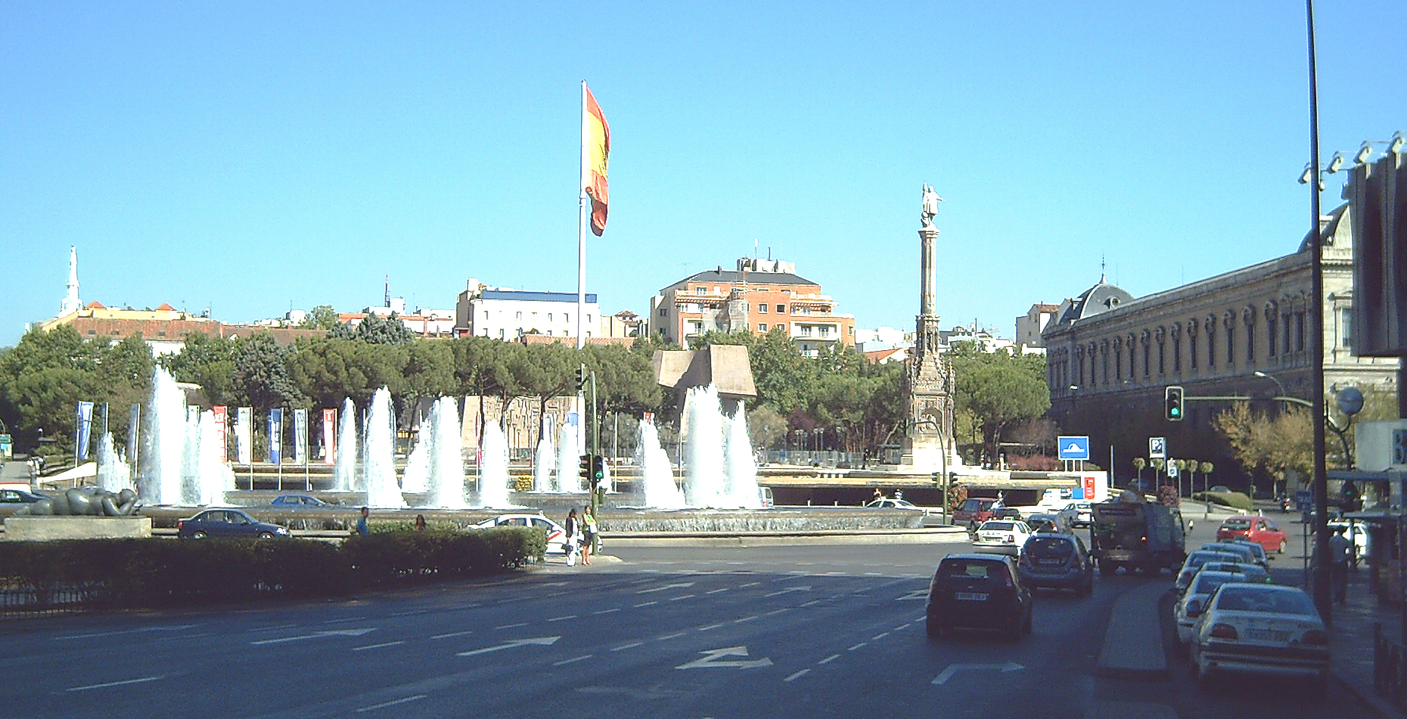 View of the Plaza de Colón ("Columbus Square") in Madrid (Spain) from Calle de Génova (street).